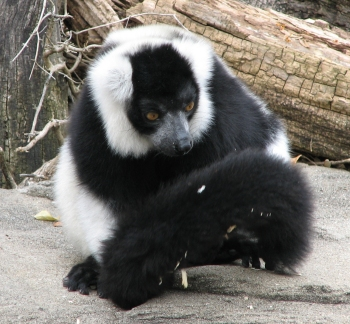 Black And White Ruffed Lemur - Varecia variegata variegata Taken at Louisville Zoo, November 5th 2006, Own Work